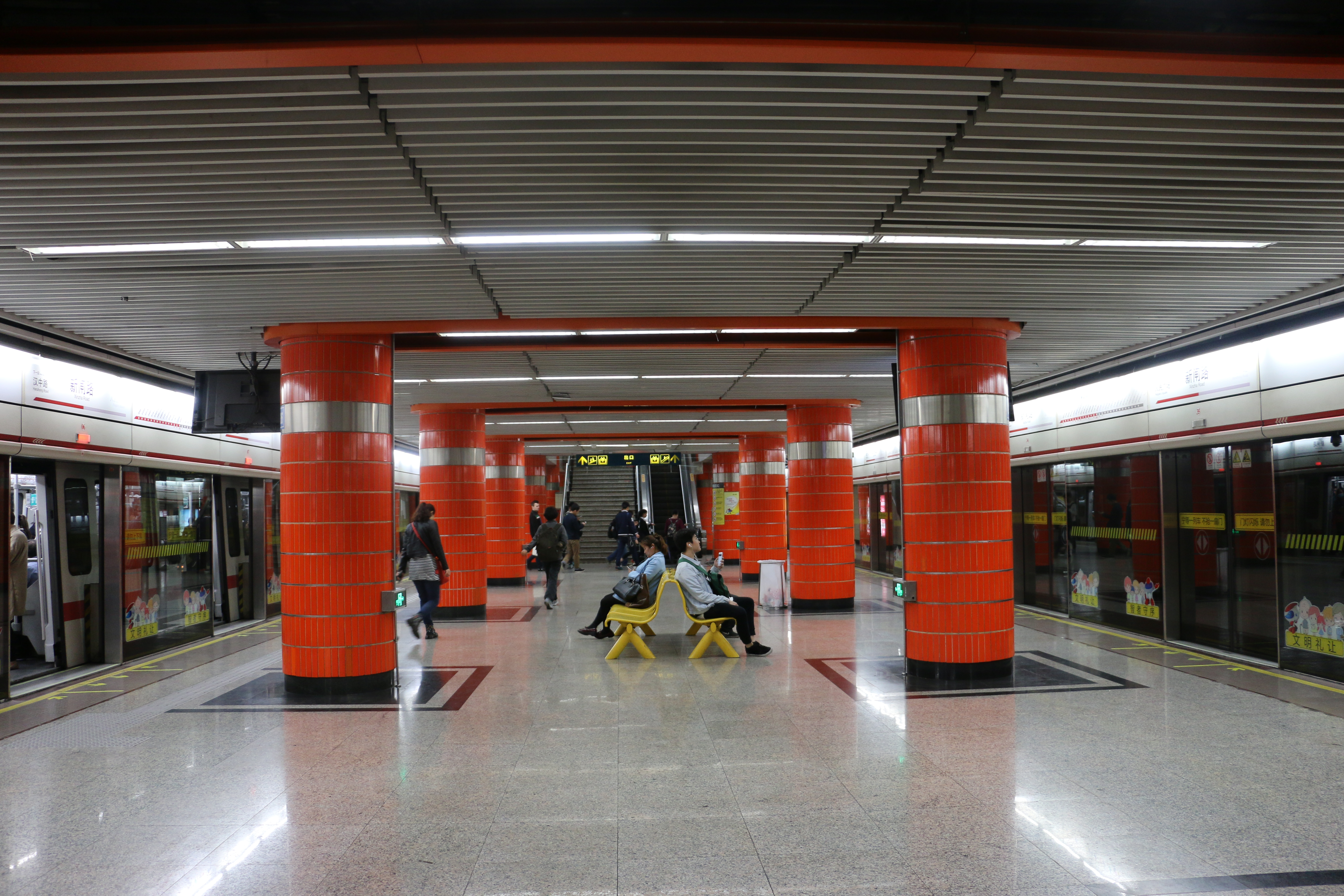 201604 Platform of Xinzha Road Station